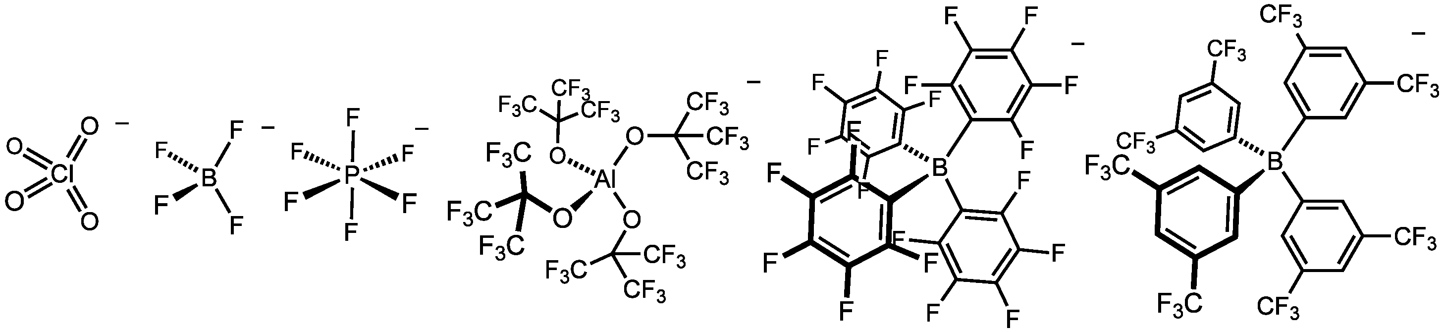 new fig of noncoordinating anions